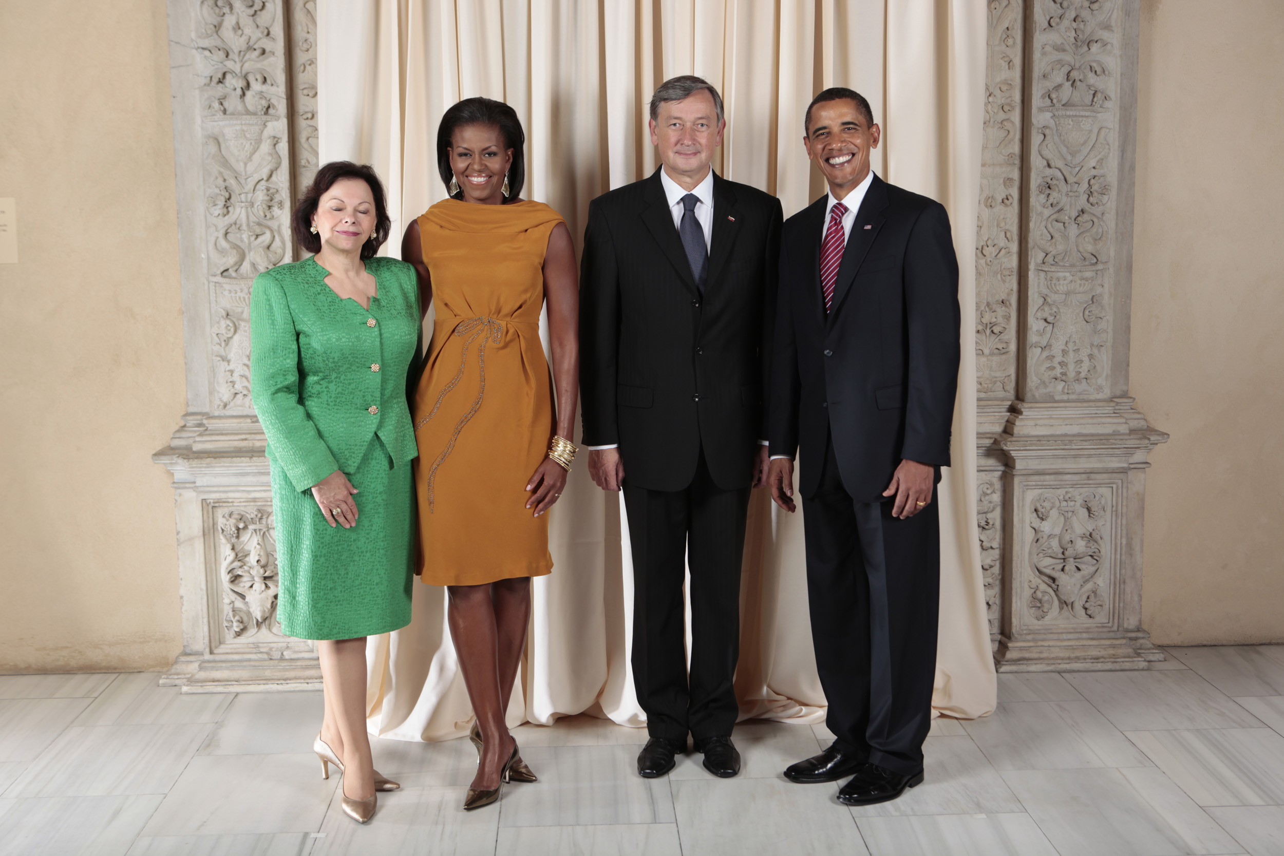 President Barack Obama and First Lady Michelle Obama pose for a photo during a reception at the Metropolitan Museum in New York with Danilo Turk, President of the Republic of Slovenia, and Mrs. Barbara Turk,.